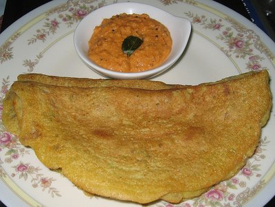 Pesarattu is very special breakfast in Andhra Pradesh. especially in Godavari Districts.